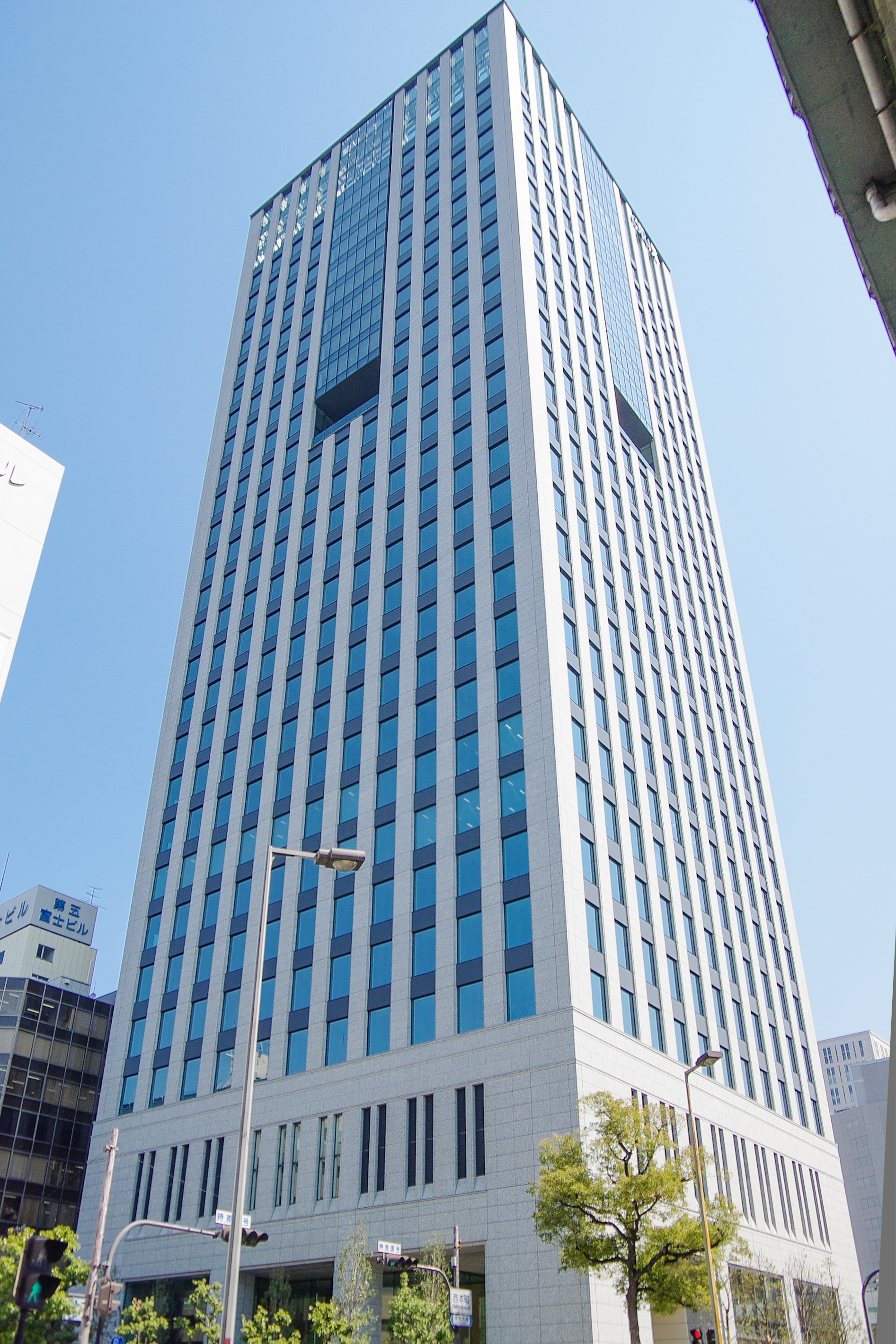 Photograph of ORIX Honmachi Building, Osaka Headquarters of ORIX Corporation, in Nishi-ku, Osaka, Osaka Prefecture, Japan.